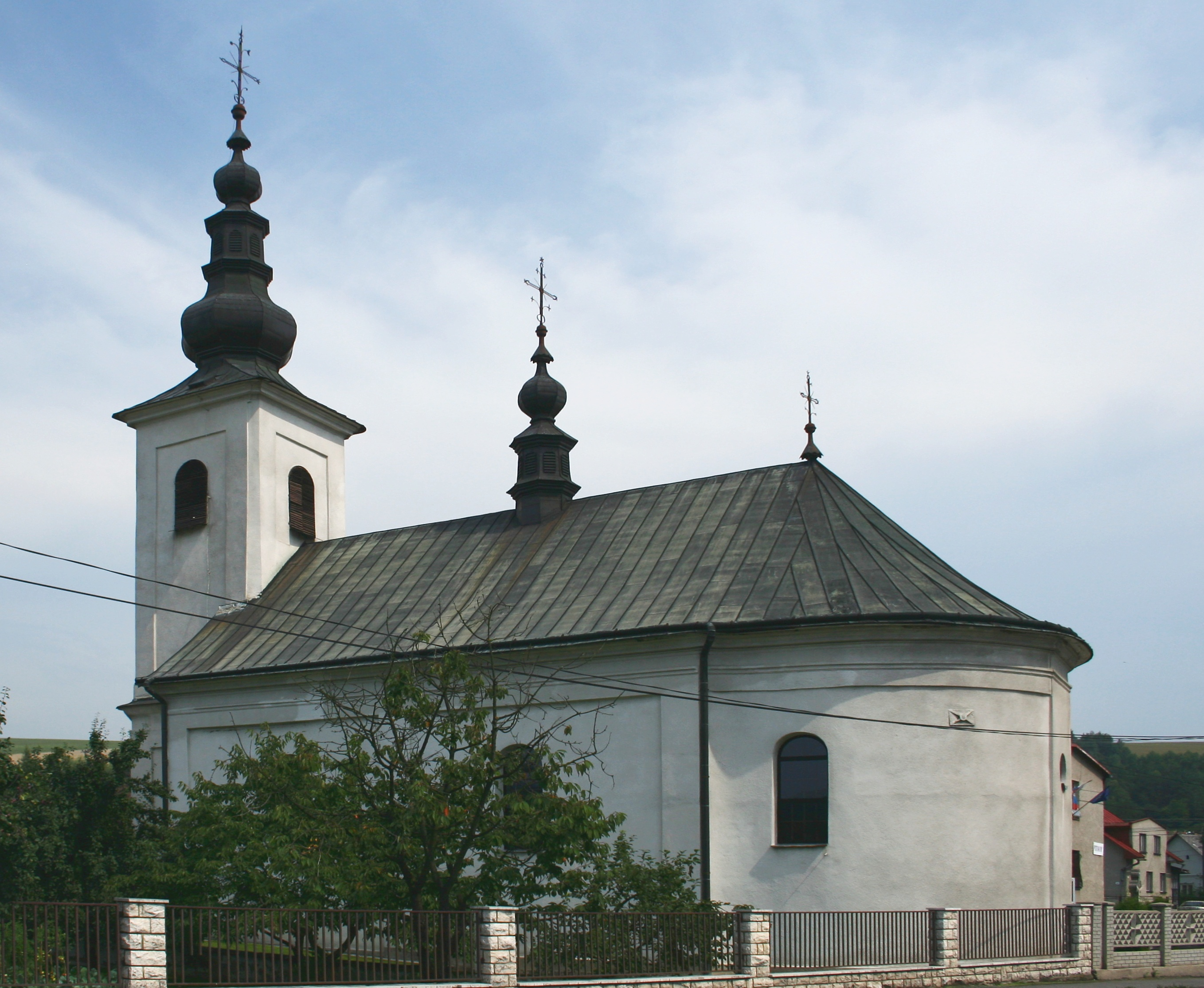 cerkiew in Gerlachov, Slovakia